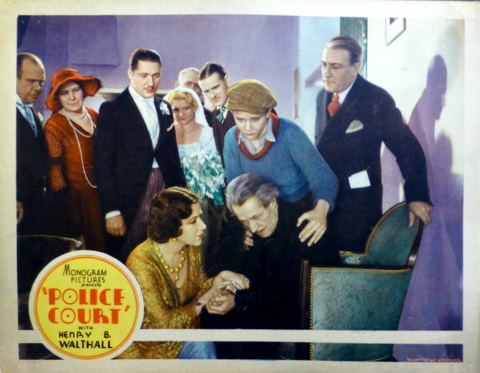 Lobby card for the film Police Court (1932) with King Baggot, Walter James, Leon Janney, Natalie Joyce, Paul Panzer, Aileen Pringle, and Henry B. Walthall. The item has no copyright markings on it as can be seen in the links above. At bottom right is Country of origin USA.